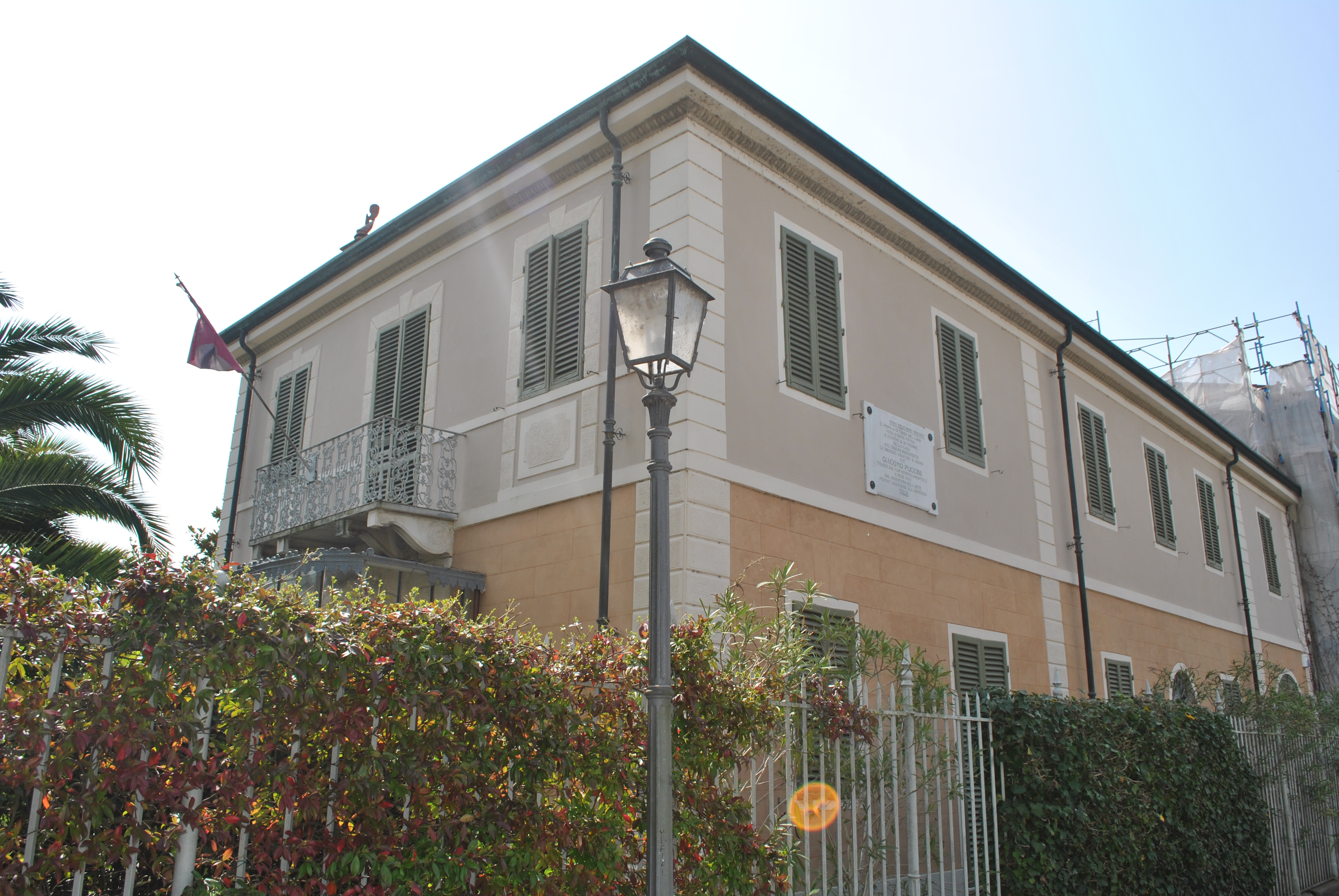 Image originally published in Queer Places: Retracing the Steps of LGBTQ people around the World Authored by Elisa Rolle